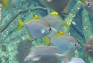 Monodactylus argenteus My own Photo:User:Haplochromis